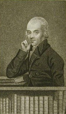 Portrait of Henry Homer (1753–1791), English classical scholar.